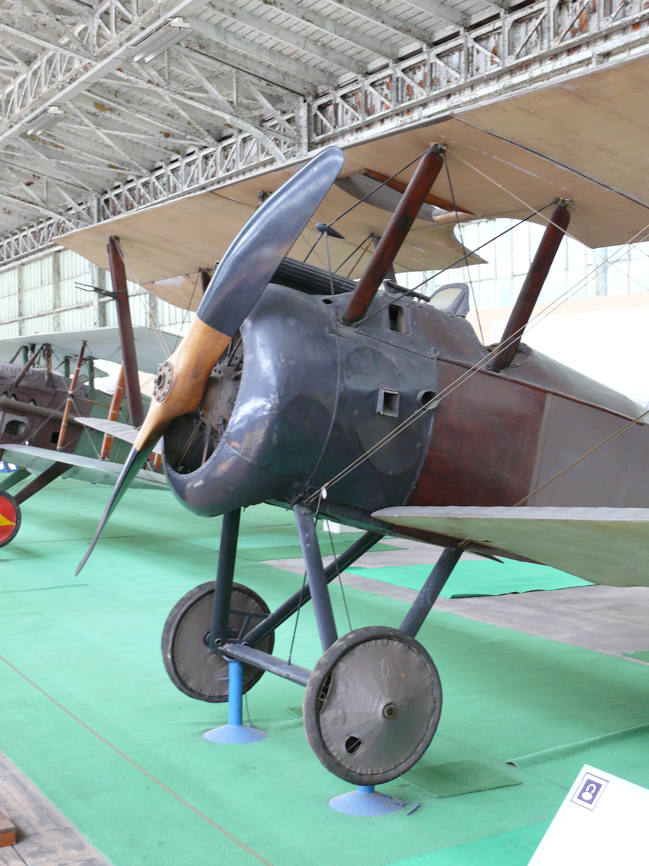 Sopwith Camel in the Royal Military Museum at the Jubelpark, Brussels. Airframe Family: Sopwith Camel Latest Model: Camel F.1 Last Military Serial: B5747 RAF Information retrieved from on 1 August 2011.